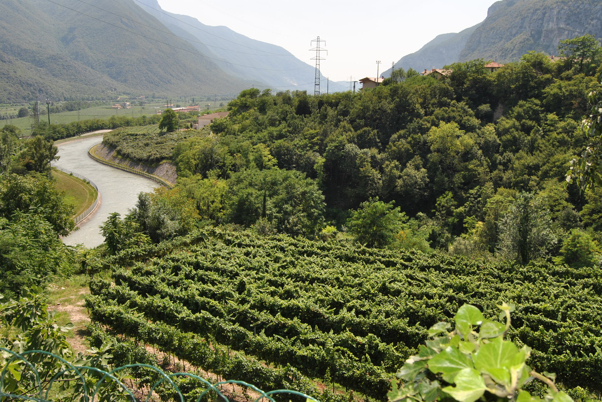 In the Italian wine region of Trentino-Alto Adige/Südtirol.